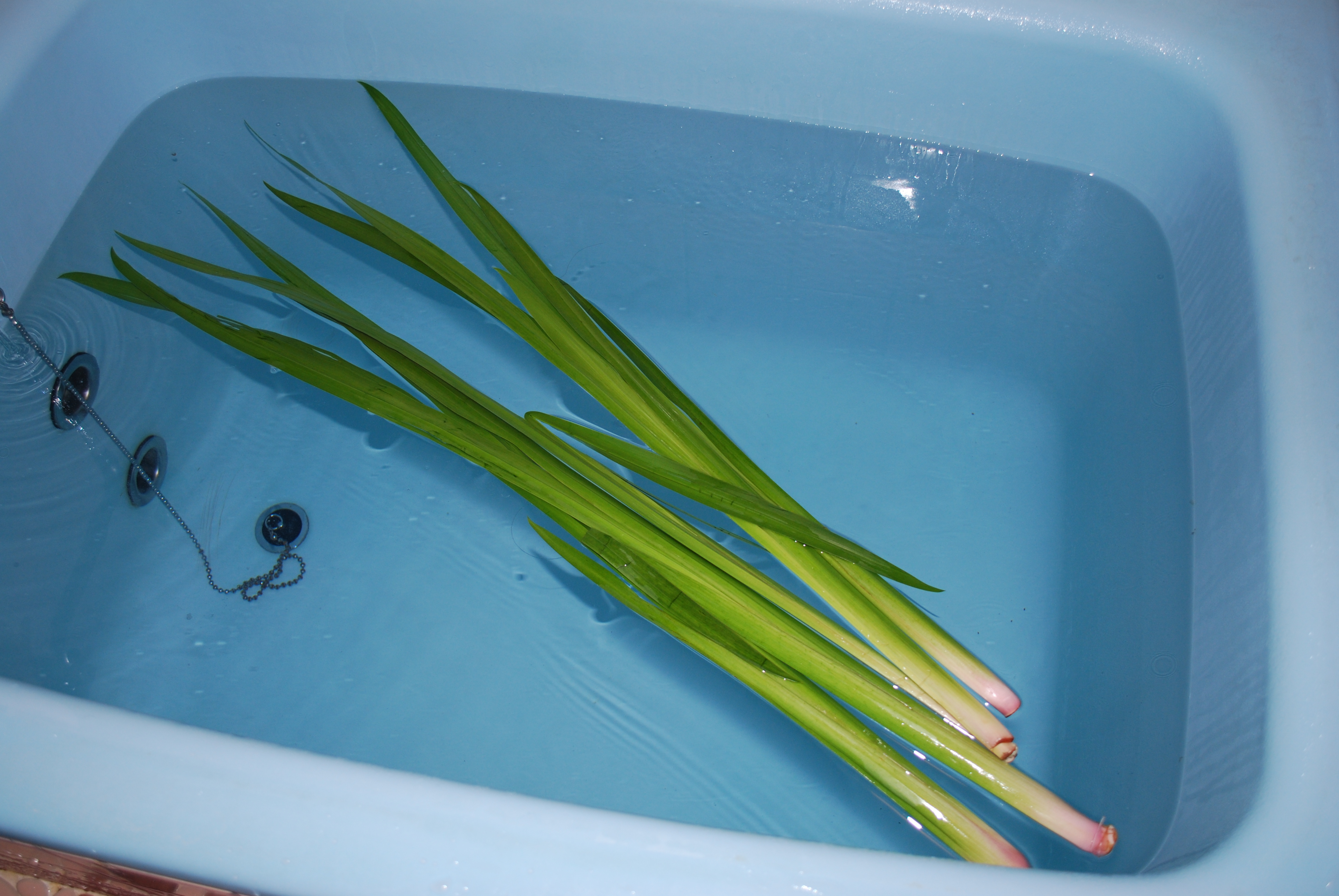 Sweet-flag bath,Shobu-yu,Katori-city,Japan. On the day of the Boy's Festival of May 5, I put the leaf of the sweet flag and heat a bath. I pay illness by taking a bath.